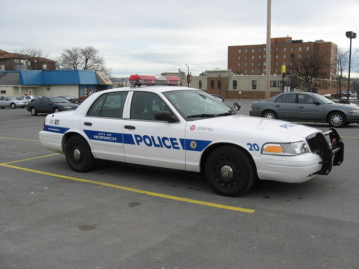 Norwich NY PD car